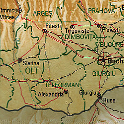 Map of Teleorman County, Romania.